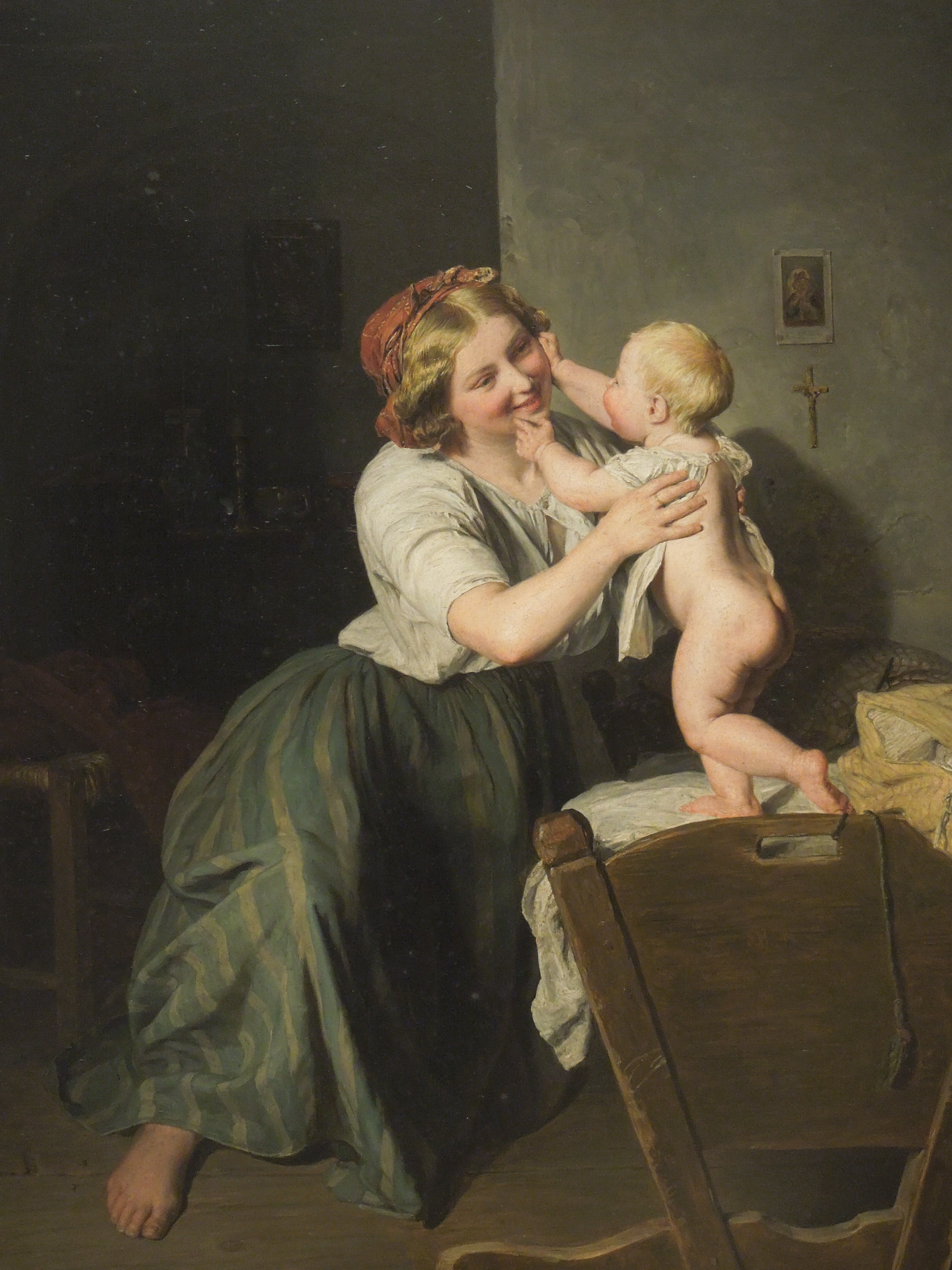 Ferdinand Georg Waldmüller - Maternal Bliss (1856)